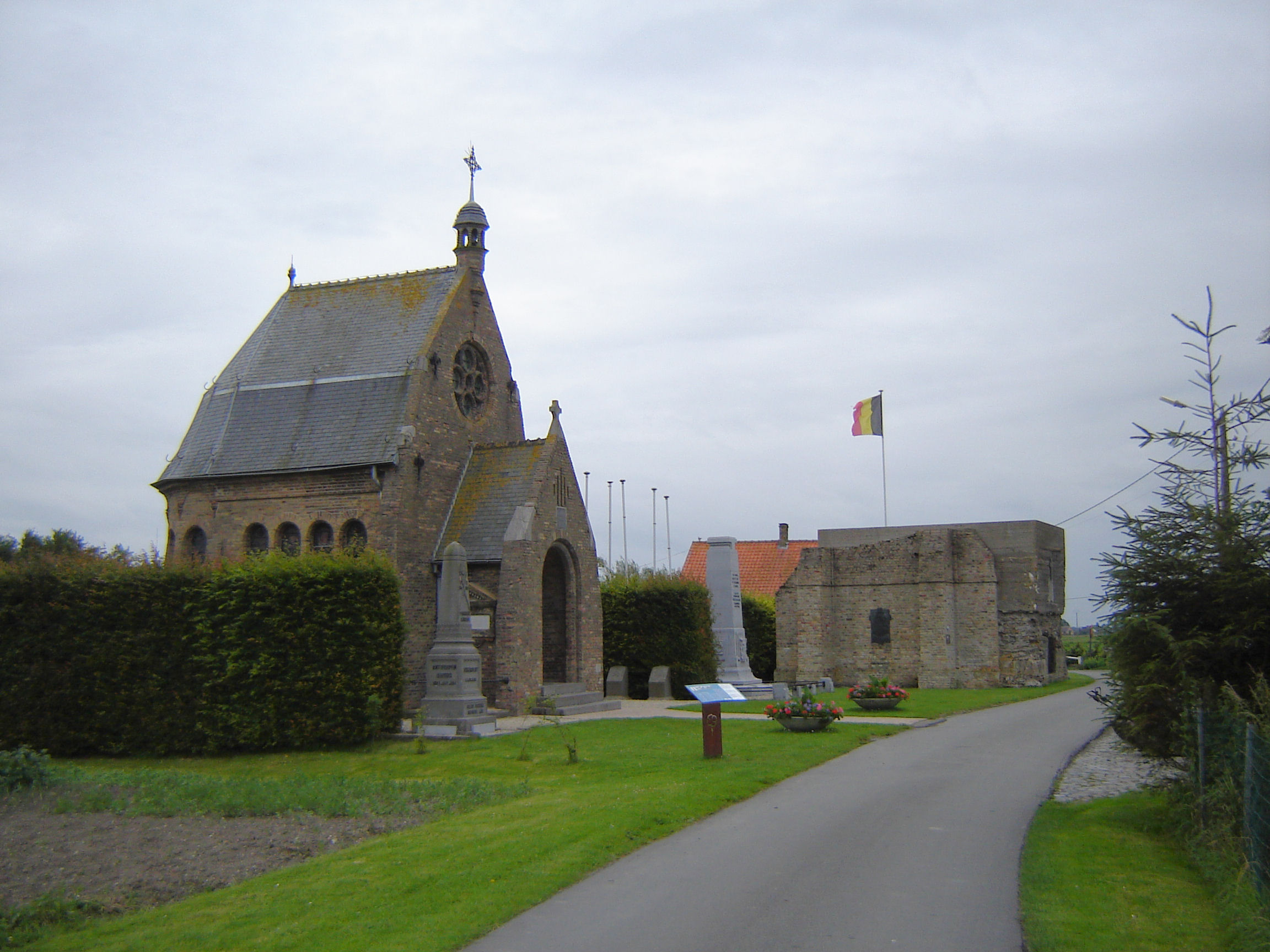 Onze-Lieve-Vrouwhoekje in Stuivekenskerke. Location of the former village centre, before the village centre was moved a few km to the north in 1870. With restored base of the tower of the former church of Saint Peter (church was pulled down in 1870 except for its tower. The tower was destroyed during World War I however). Also a memorial chapel "Our Lady of Victory". Stuivekenskerke, Diksmuide, West Flanders, Belgium